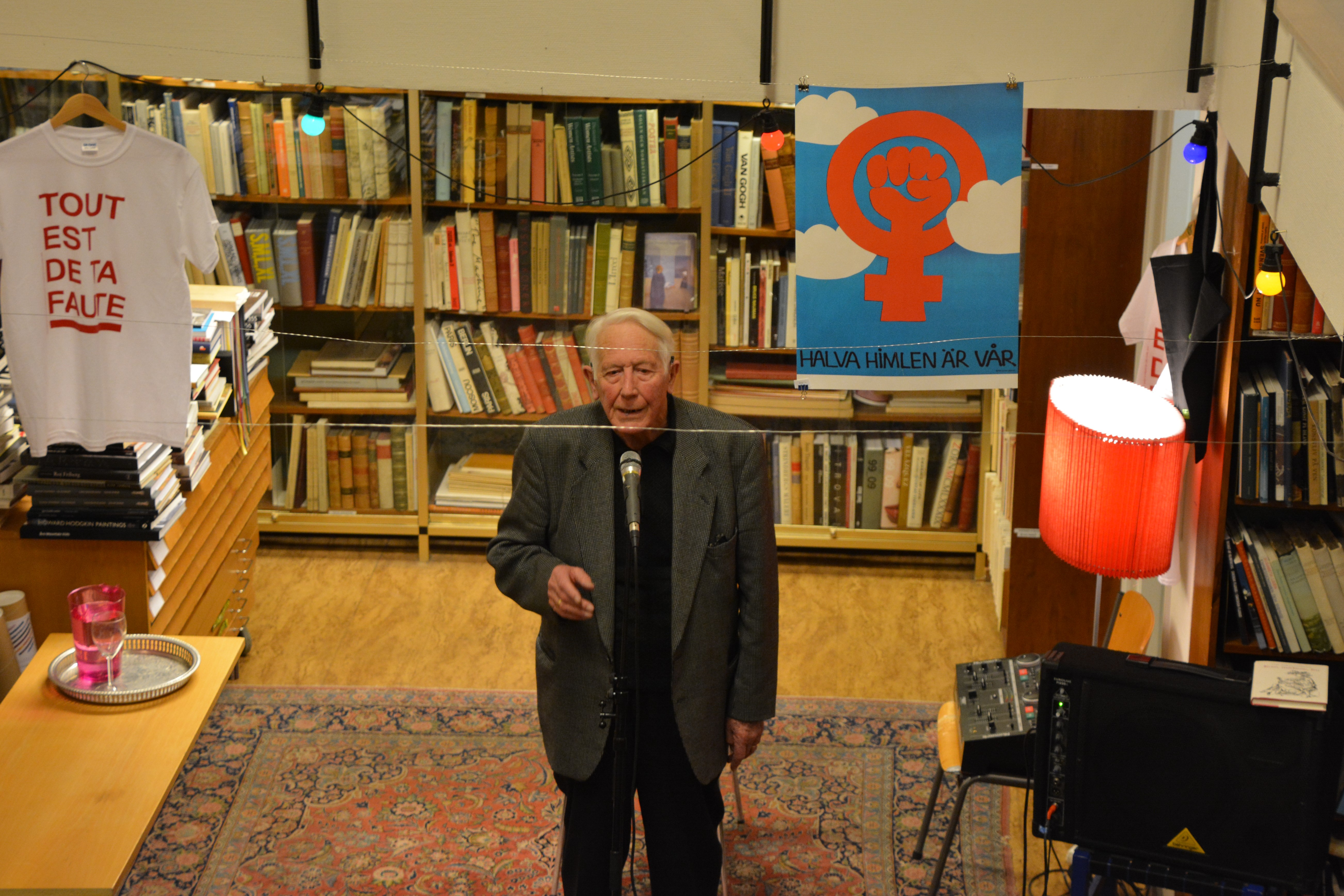 Carl-Göran Ekerwald på författarmöte på Rönnells antikvariat i Stockholm